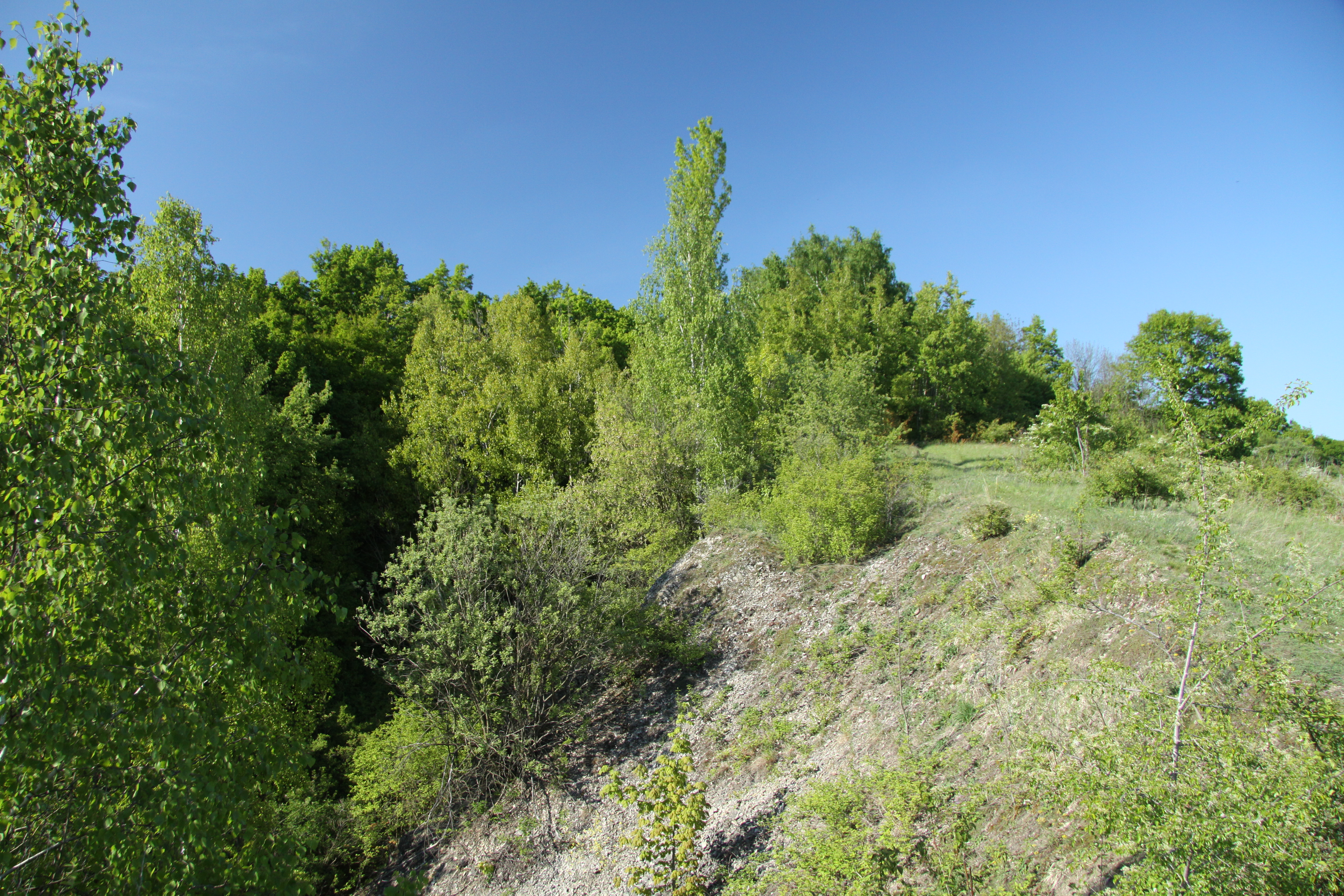 Natural reserce Homolka, Velká Chuchle, part of Prague, Czech republic - Google Maps - Google Earth